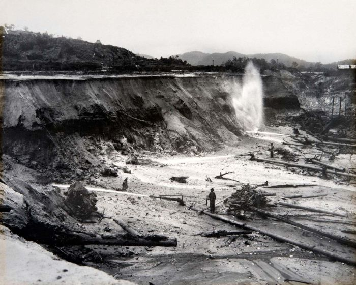 Hydraulic tin mining at a mine of the Singkep Tin Company, Tumang hill